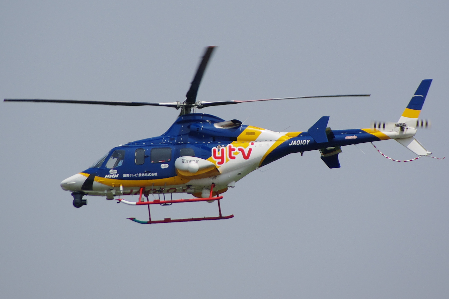 Photograph of Nakanihon Air Service's Bell 430 (JA010Y), chartered by Yomiuri Telecasting Corporation (YTV) for news gathering, descending for landing at Yao Airport in Yao, Osaka Prefecture, Japan.